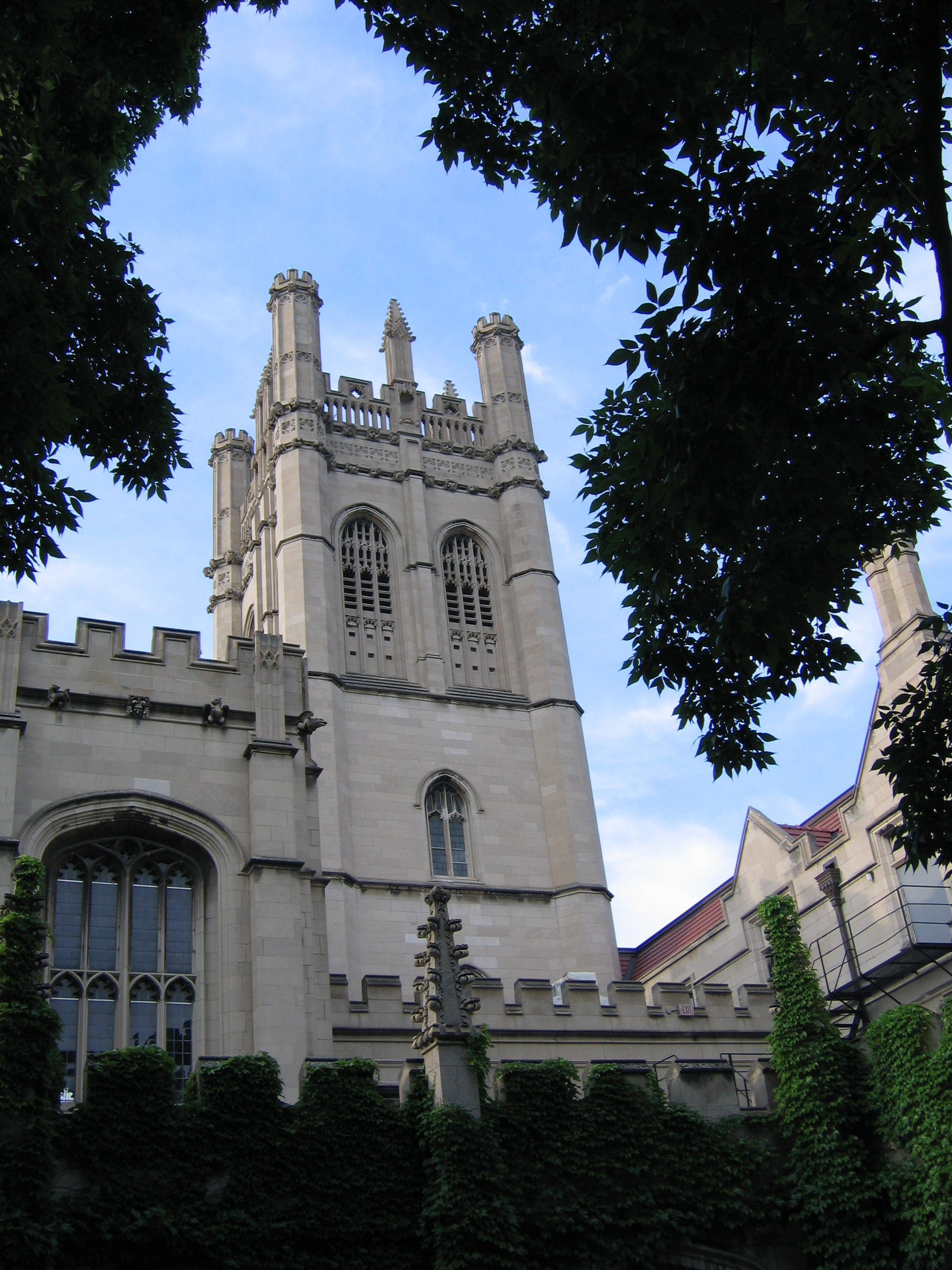 The Reynolds Club is the student union building for the University of Chicago. Part of the building, the John J. Mitchell Tower, is modeled after Magdalen College Tower at Oxford University. The building serves as a bell tower and as the home of WHPK, the university's campus radio station.